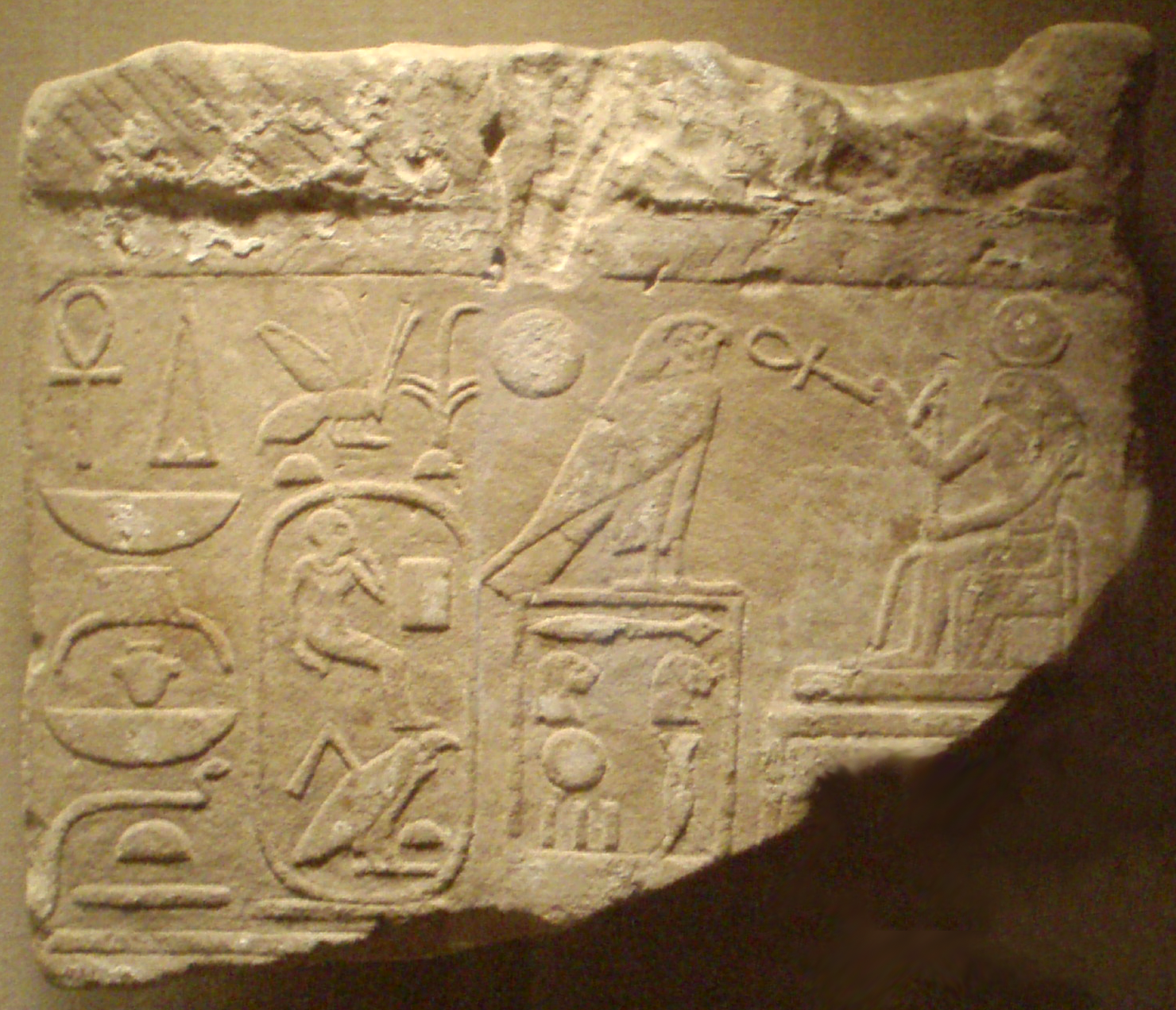 Relief fragment bearing the names of the pharaoh Psammuthis.